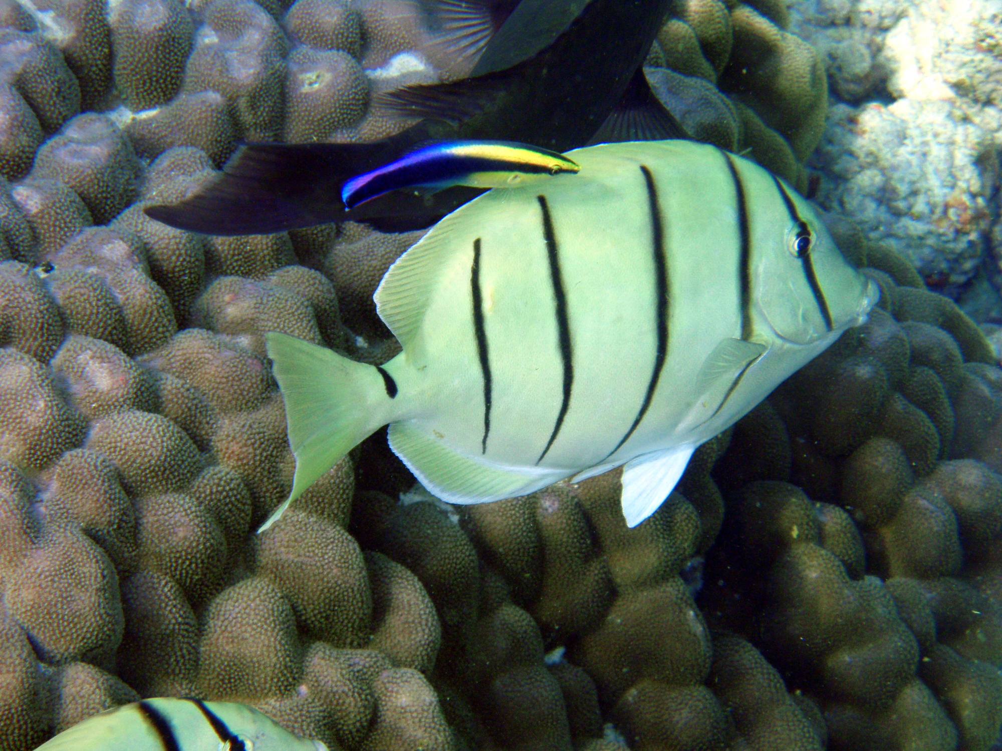 Labroides phthirophagus and convict tang, Acanthurus triostegus at cleaning station in Kona,Hawaii